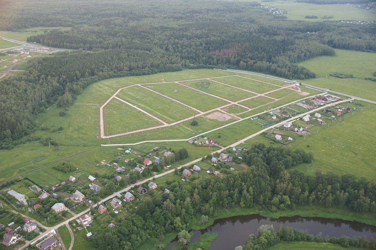 Village Tikhonovo, Mozhayskiy district, Moscow region.